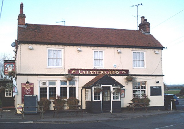 The Carpenters Arms Pub on the roundabout junction of the A129 and the old A130 west of Rayleigh.